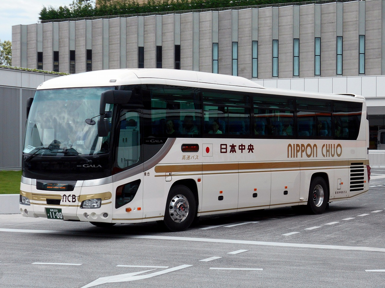 Nippon chuo bus Isuzu Gala highwaybus "Shinjuku-Takasaki,Maebashi"